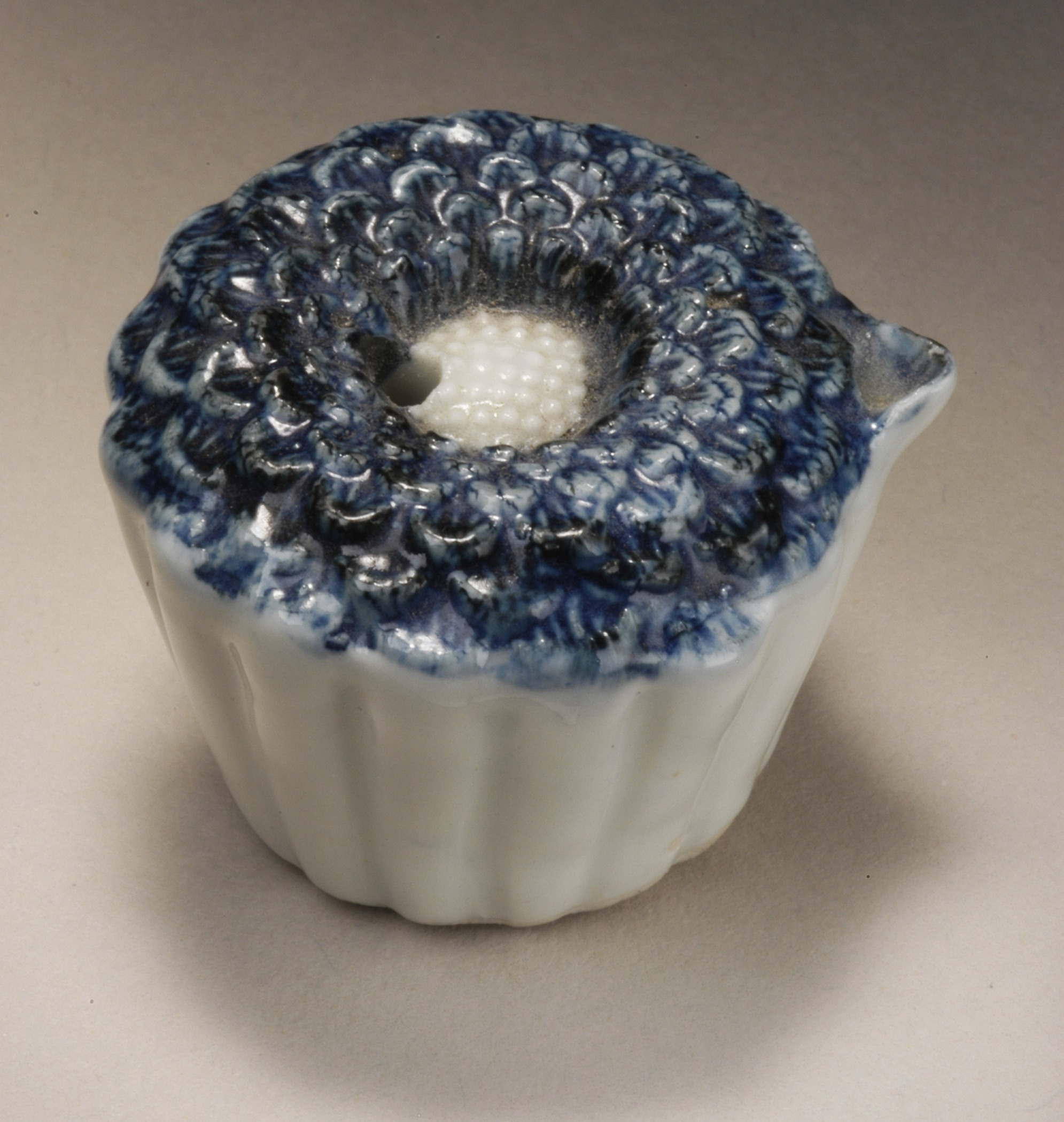 Japan, 19th century Tools and Equipment; water droppers Hirado ware, porcelain with underglaze blue Gift of Allan and Maxine Kurtzman (M.2002.147.13) Japanese Art